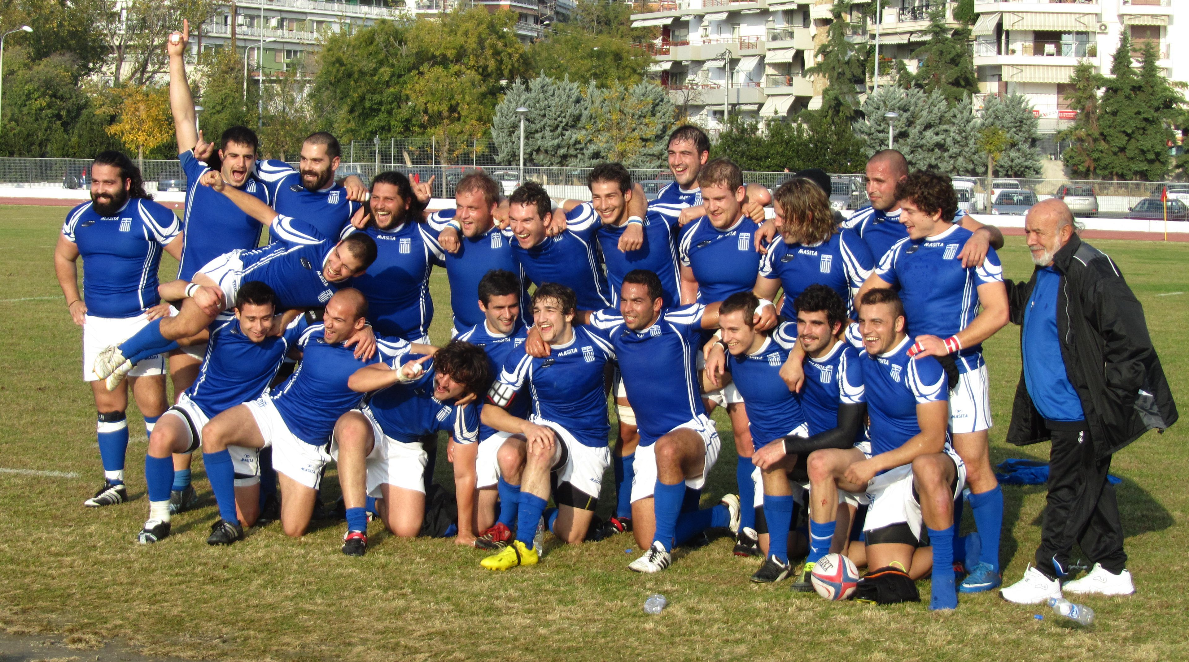 National Rugby team of Greece in 2011